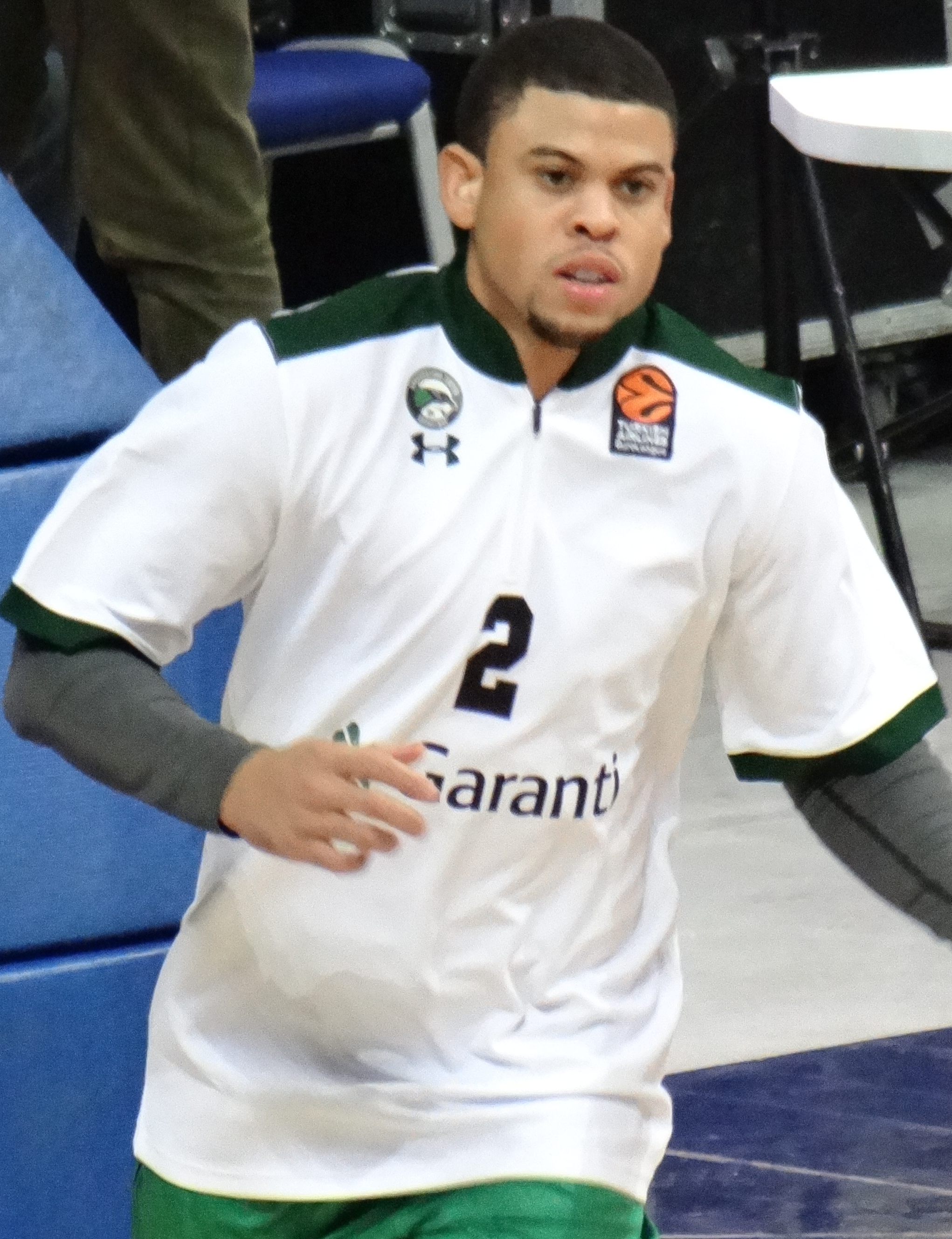 Ray McCallum Jr. 2 Darüşşafaka Tekfen 20181120